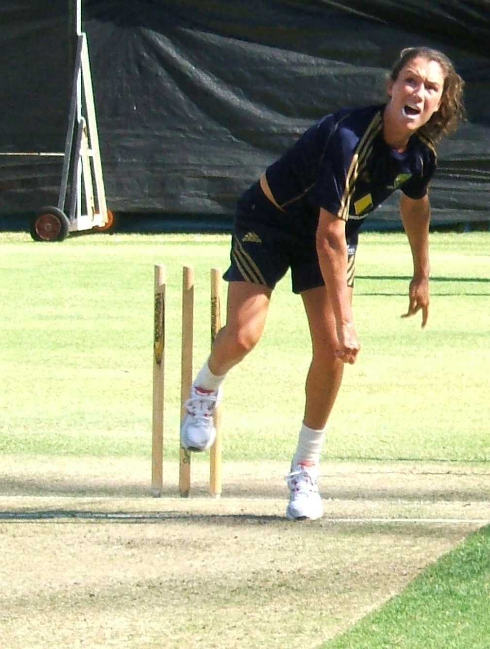 Named person engaging in named action at Adelaide Oval nets/training ground